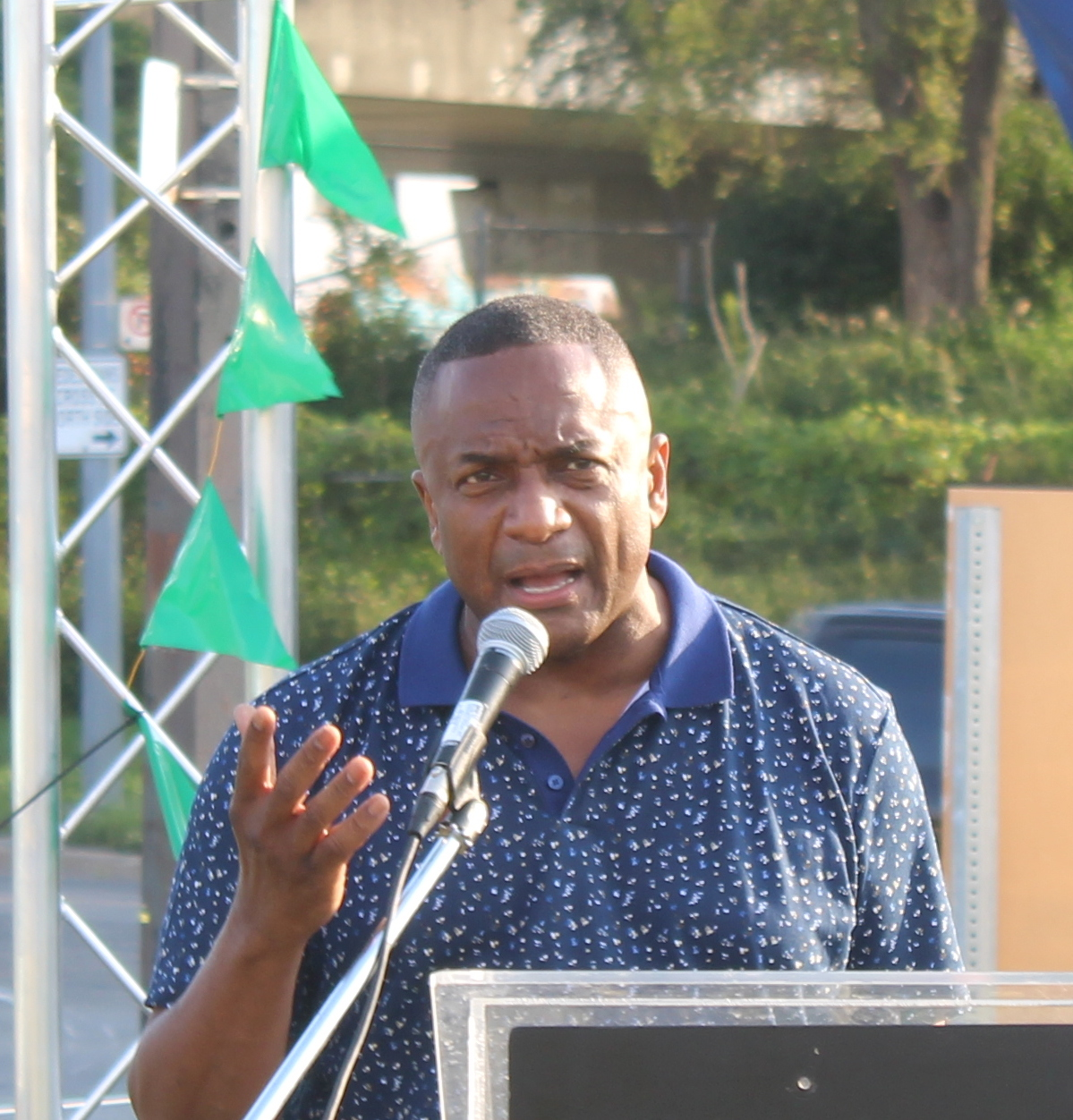 Michael Thompson at Scarborough Town Centre